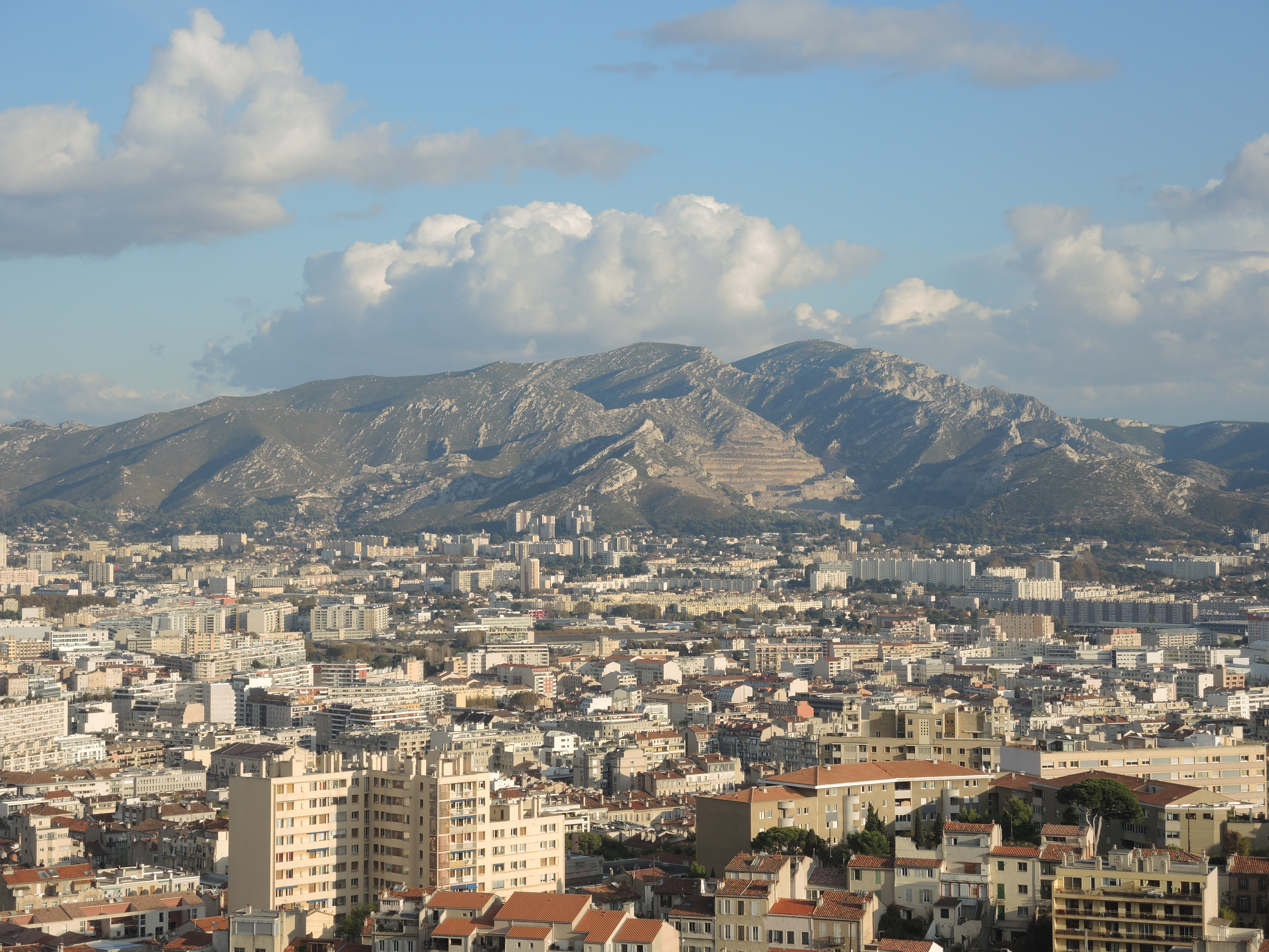 View from Notre Dame de la Garde in Marseille in southeast direction to Mount Saint Cyr and Mount Carpiagne